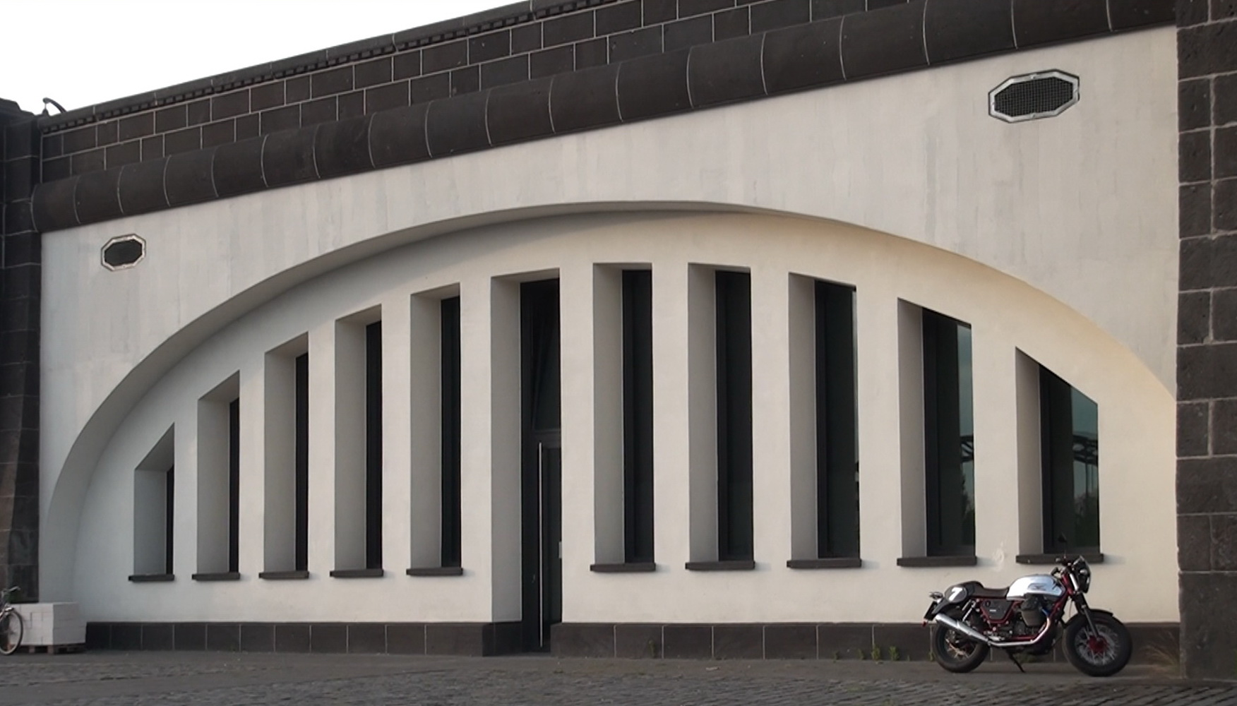 "Kunstverein Familie Montez in June 2016", video still image taken from the video No. 94 "Kunstverein Familie Montez - Thomas Draschan / Torsten de Winkel" by Christiaan Tonnis